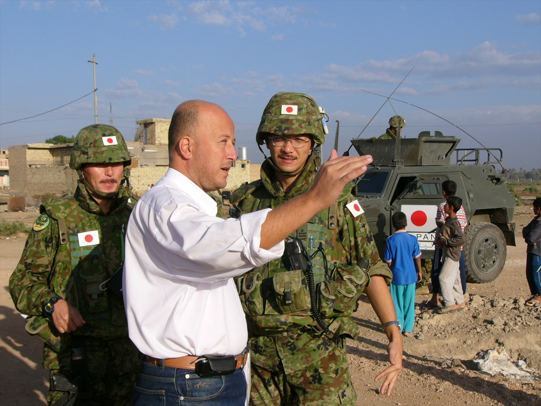 Title P1100812_R.JPG Album 国際平和協力活動等（及び防衛協力等） イラク人道復興支援特措法に基づく活動